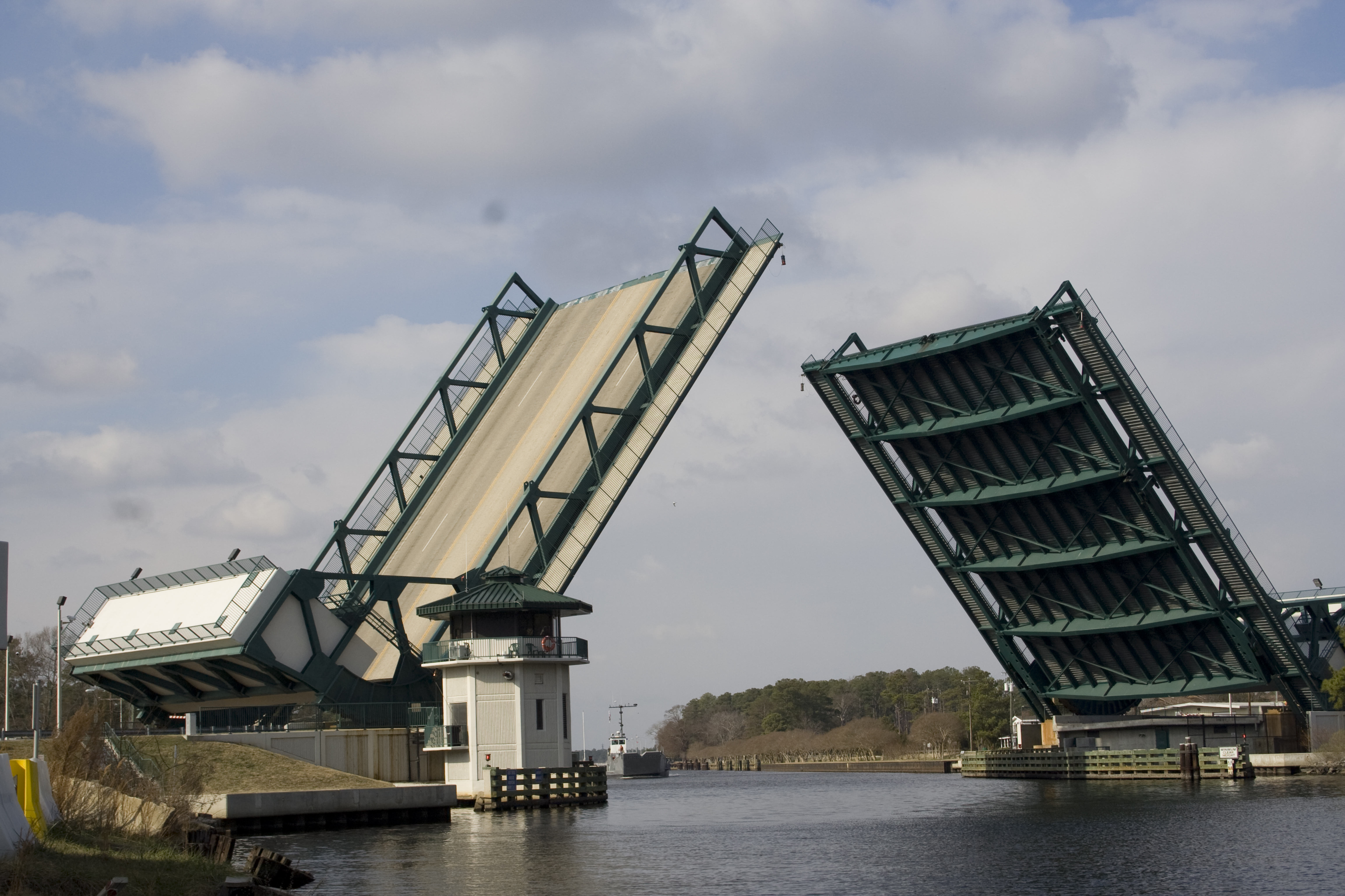 Great Bridge, Bridge, in Chesapeake, Va., was completed in 2004 and crosses the Albemarle and Chesapeake Canal. Built by the U.S. Army Corps of Engineers, it is the first fully hydraulically operated bridge in Virginia.